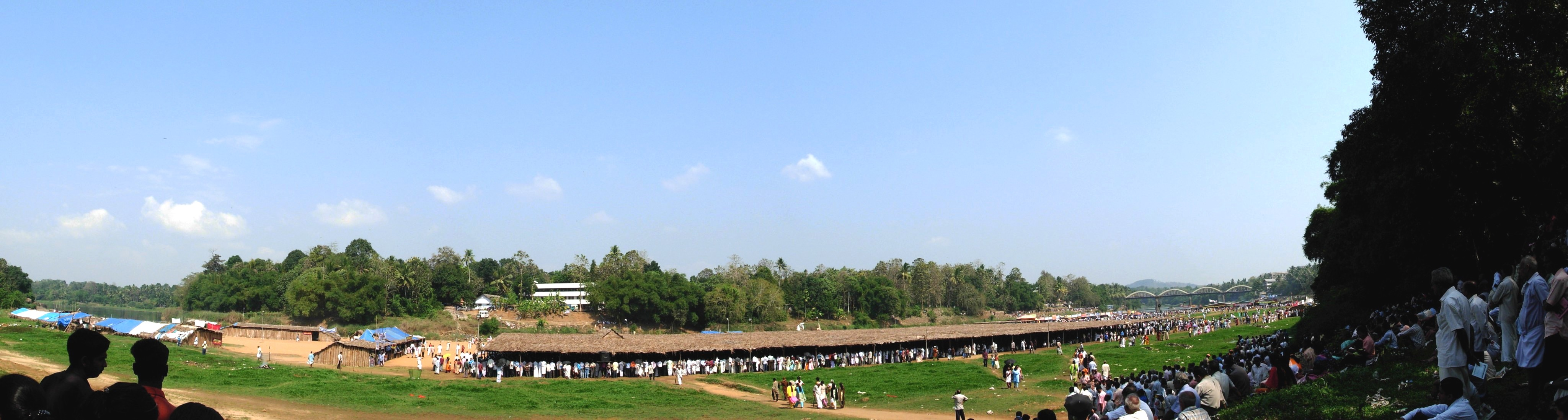 A Wide view of Maramon Convention Venue 2008 (Asia's Largest Christian convention started 113 years ago - 1896,Banks of River Pampa - Kerala, India) View from the 'Kozhencheari' Side.